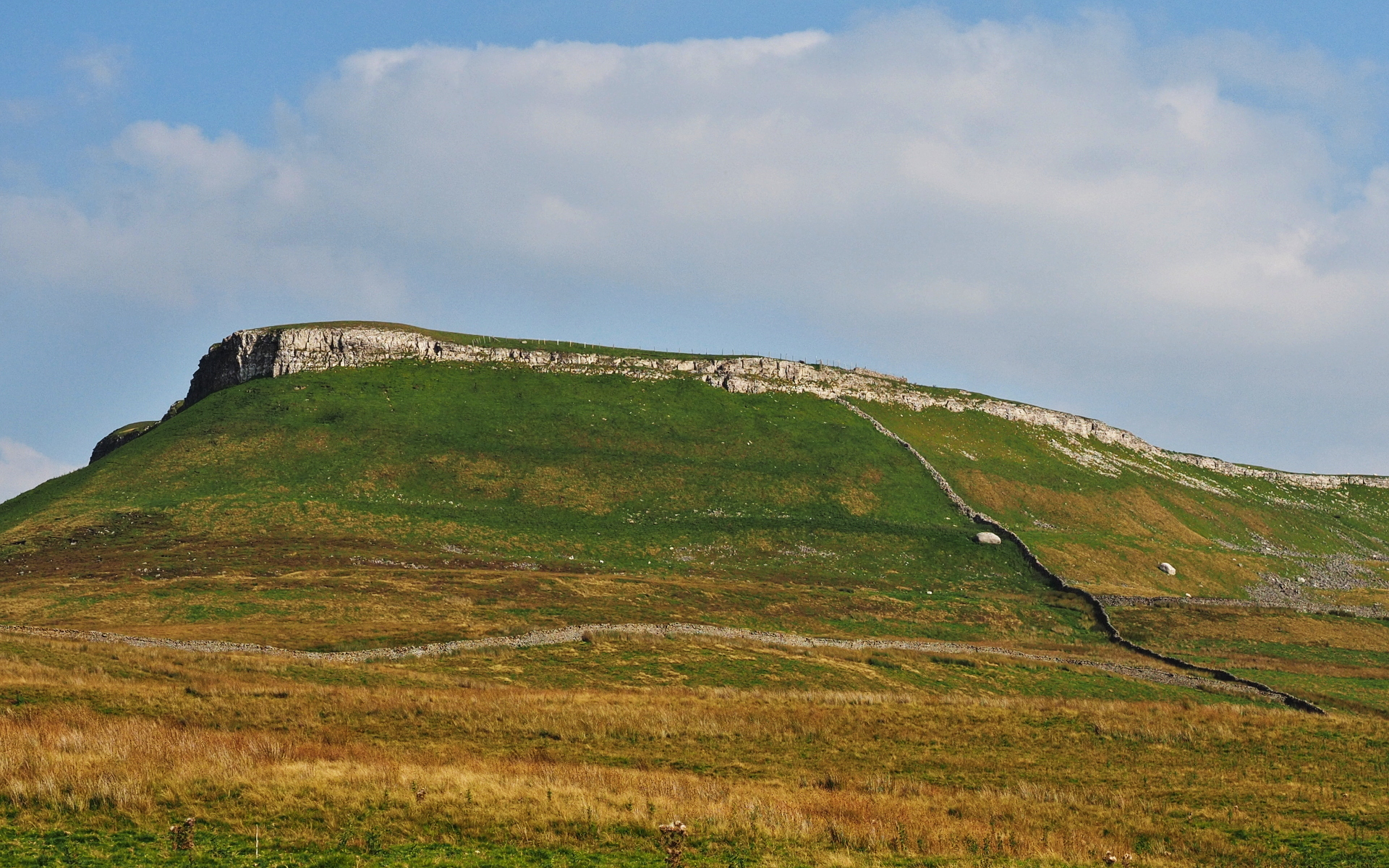 Addlebrough hill as seen from Carpley Green Road